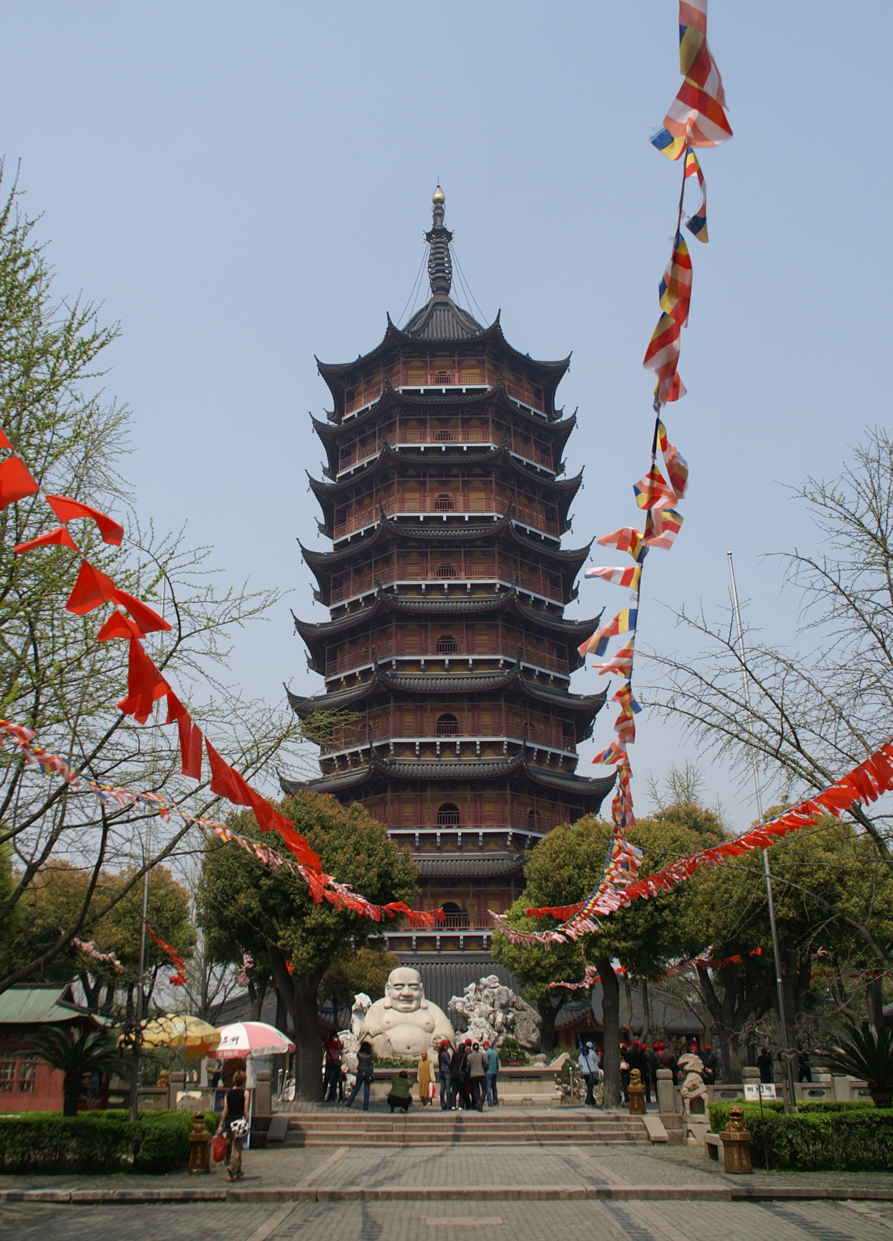 North Temple Pagoda in Suzhou, China